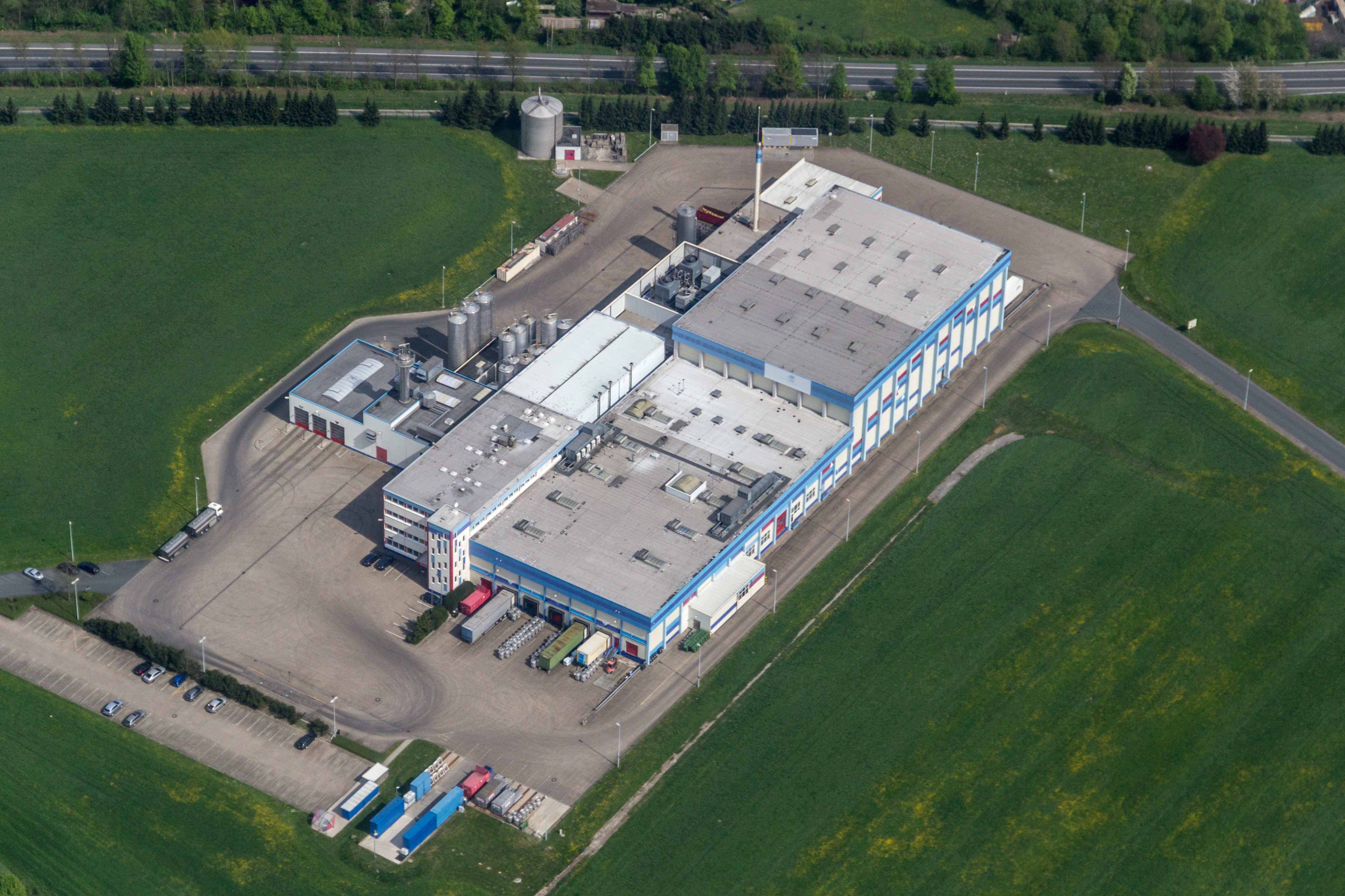 Coesfeld, North Rhine-Westphalia, Germany